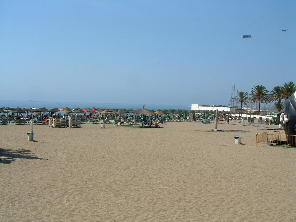 Author: Hans Lohninger Description: Beach of Marbella Source URL